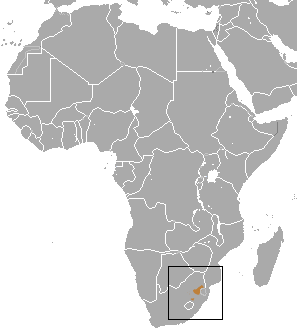 Highveld Golden Mole (Amblysomus septentrionalis) range